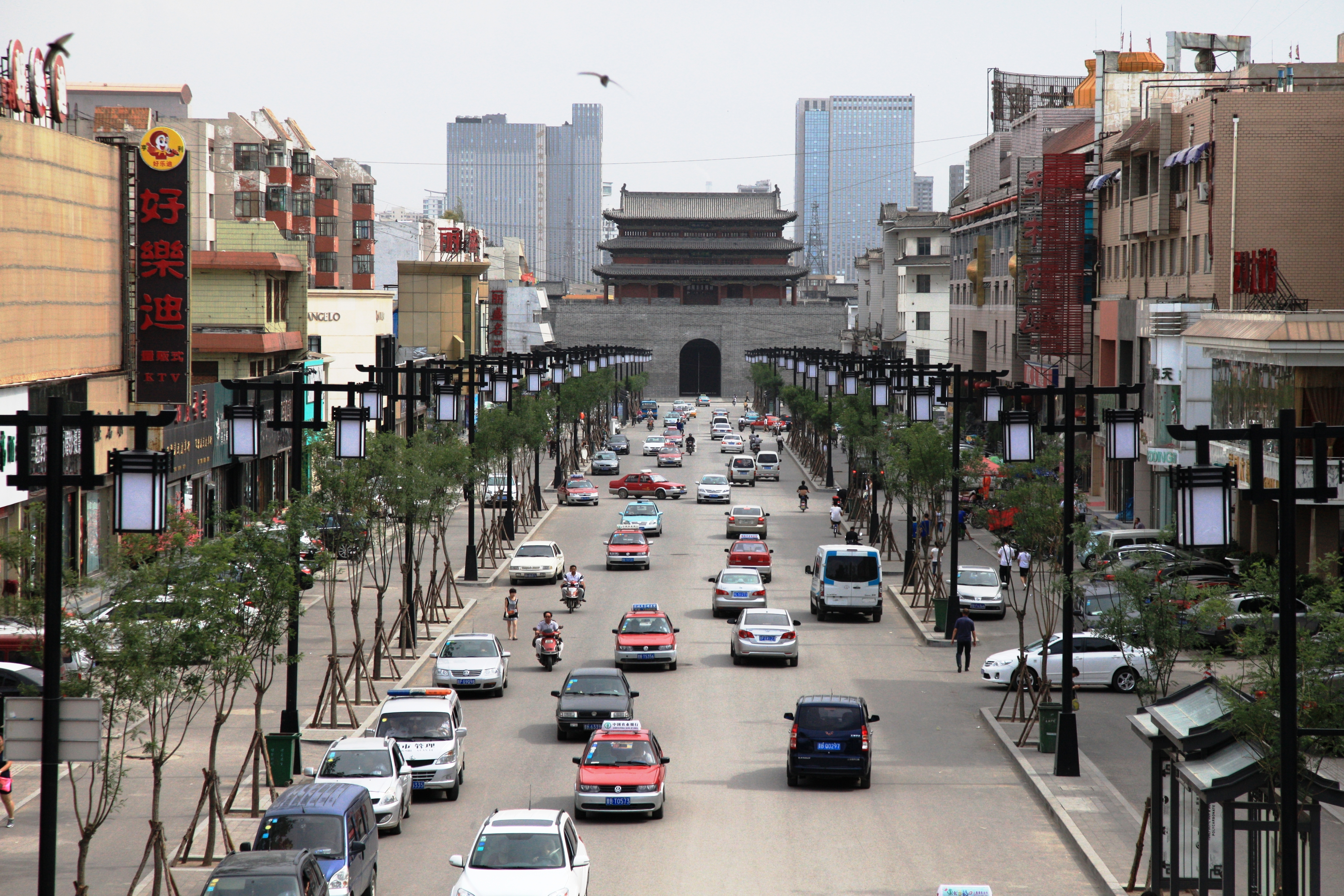 The South Gate. View from the Drumtower. Datong, Shanxi.